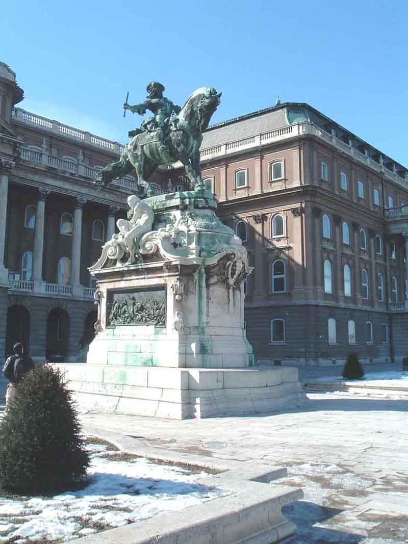 Eugen Savoyai's statue in the Castle of Buda, Budapest, Hungary